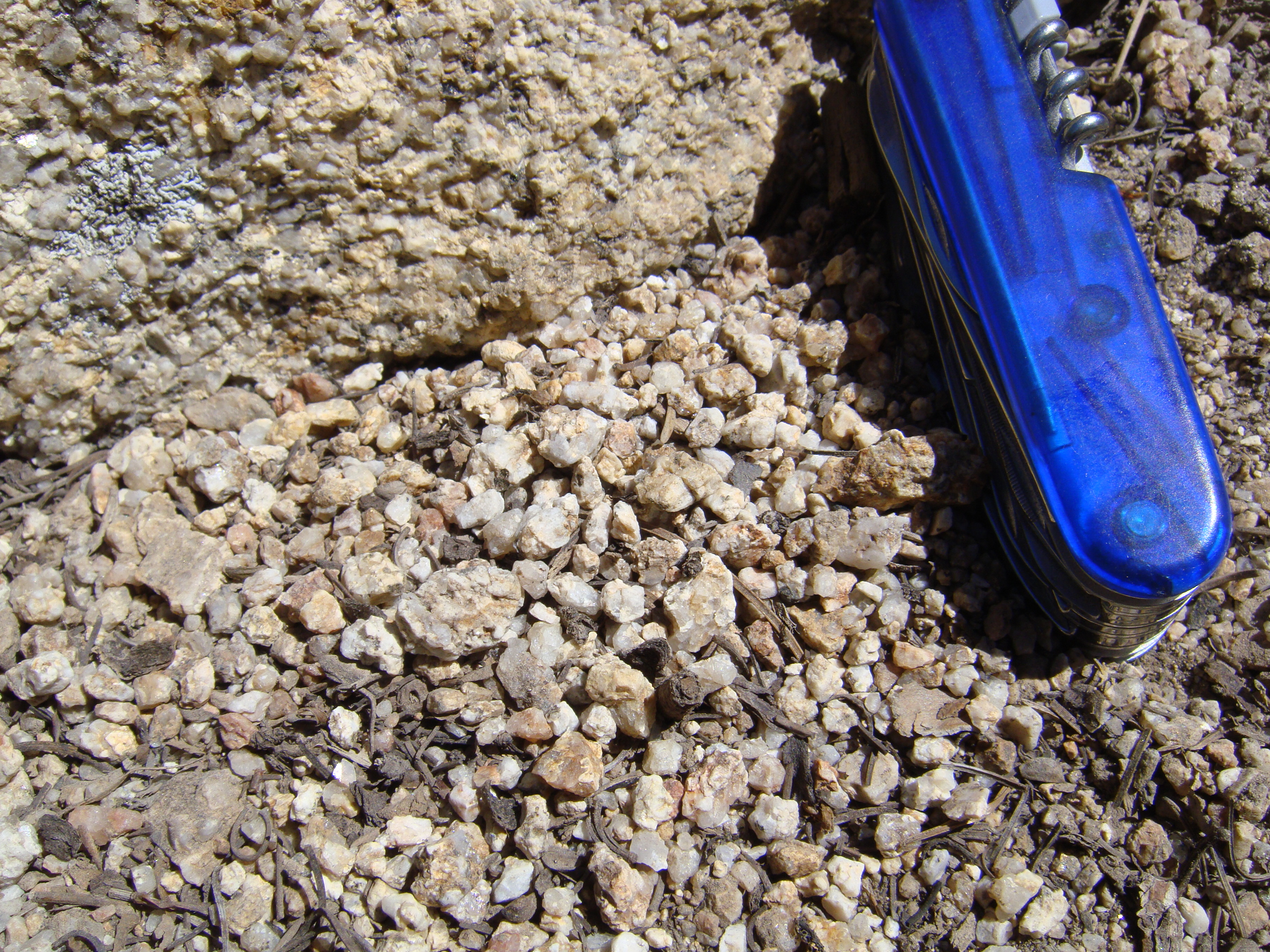 Grus, and weathered granitoid it derived from. Knife is 2 cm wide. Taken on a glacial moraine in Great Basin National Park, Nevada.